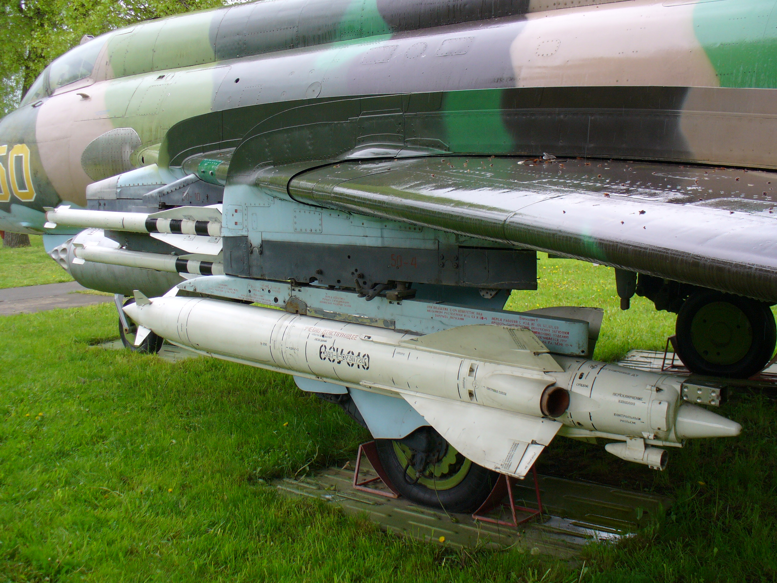 The Sukhoi Su-17M3 (NATO reporting name: "Fitter-H"), a Soviet attack aircraft. Ukrainian Air Force Museum in Vinnitsa.